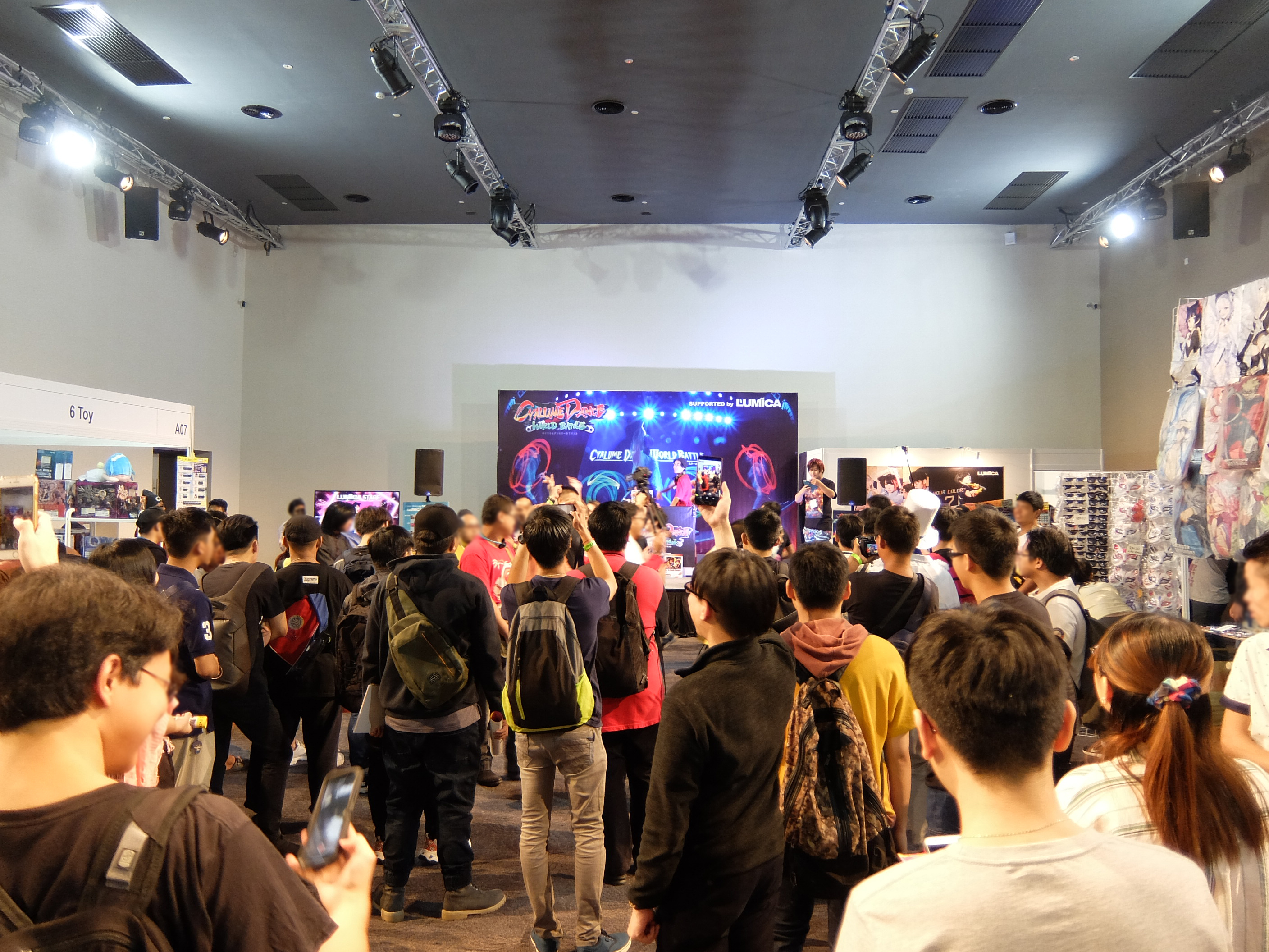 I Love Anisong Matsuri Malaysia 2019 @ Quill City Mall, Chow Kit, Kuala Lumpur, Malaysia